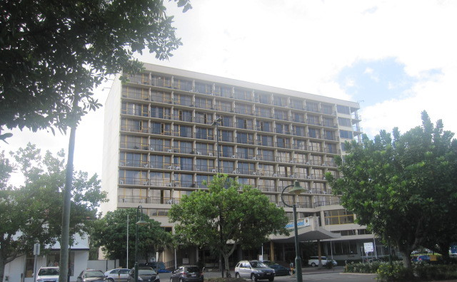 The Pacific International Hotel in Cairns